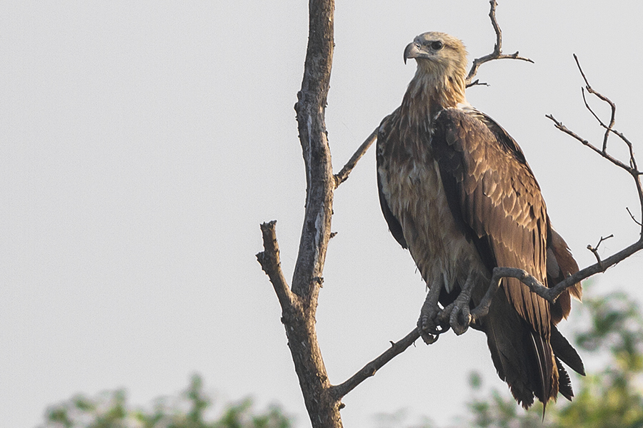 The specie White-bellied Sea Eagle had been photographed during the GoingWild bird photography tour from Dobankee, Sundarbans, West Bengal, India on 16.12.2014.